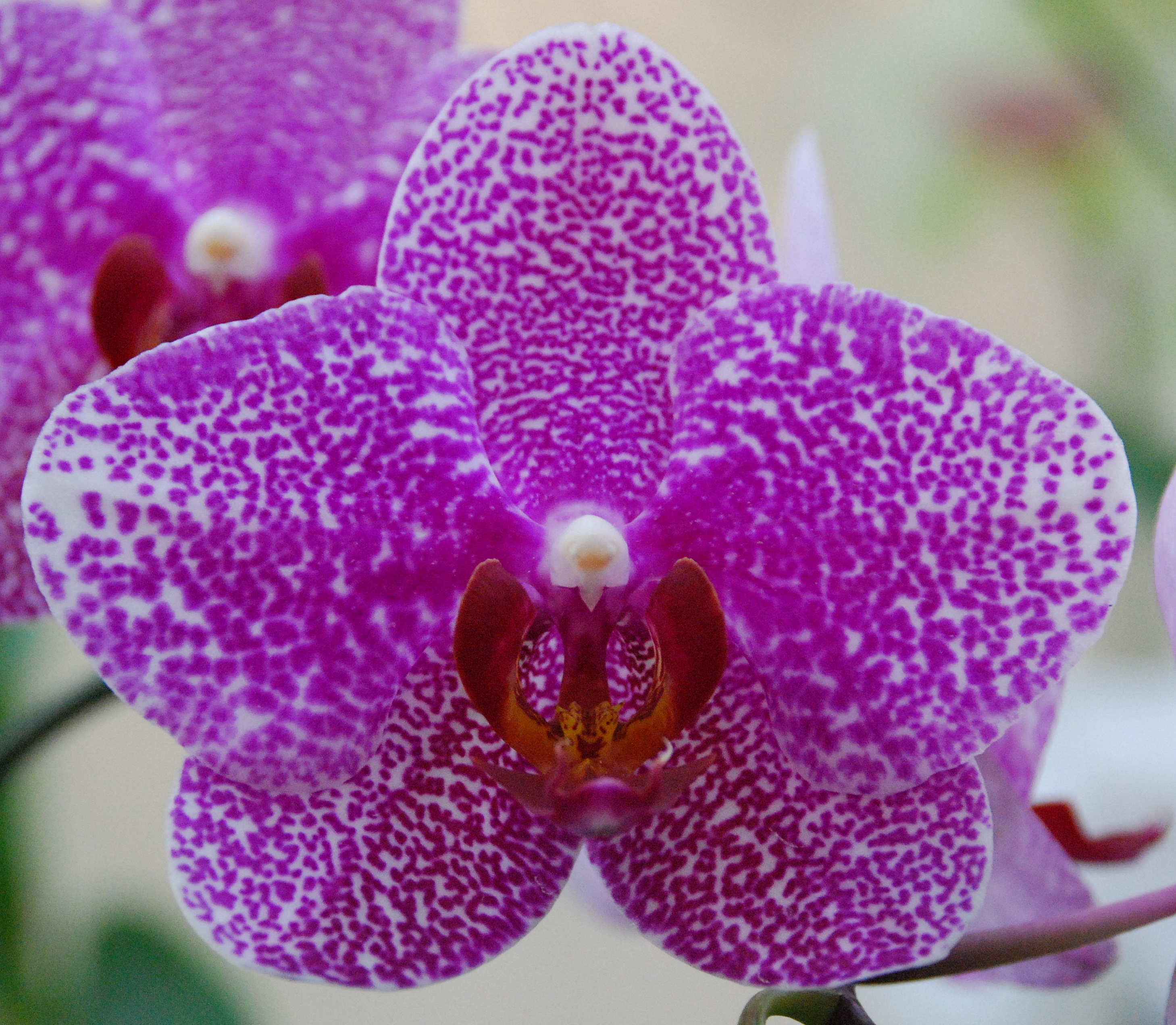 phalaenopsis in the United States Botanical Garden